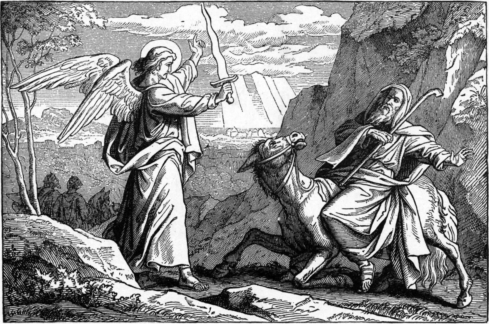 An Angel Met Balaam with a Sword. Caption: "The man who is riding on the ass is named Balaam. He is a prophet, but he is not a good man. A wicked king has sent for Balaam. He wants him to curse the people called Israelites. The king thinks that if Balaam curses them God will destroy them. Balaam ought not to curse the Israelites, for they are God's people. But the king offered to give him a great deal of silver and gold if he would come to him and curse them. So Balaam saddled his ass and started to go. You see in the picture that when Balaam got part way to the king's country an angel met him with a sword in his hand. The ass saw the angel first, and he fell down for fear. But Balaam beat the ass. Then God made the ass speak; it said to Balaam, Why have you beaten me these three times? And Balaam looked up and saw the angel standing in the way. Then the angel told him he might go on to the king's country, but he must be very careful to speak only those words that the angel told him." Illustration from the 1897 Bible Pictures and What They Teach Us: Containing 400 Illustrations from the Old and New Testaments: With brief descriptions by Charles Foster